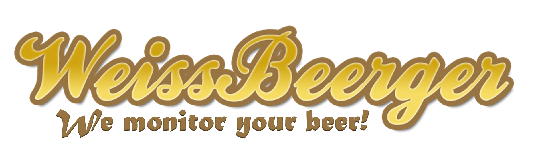 WeissBeerger logo